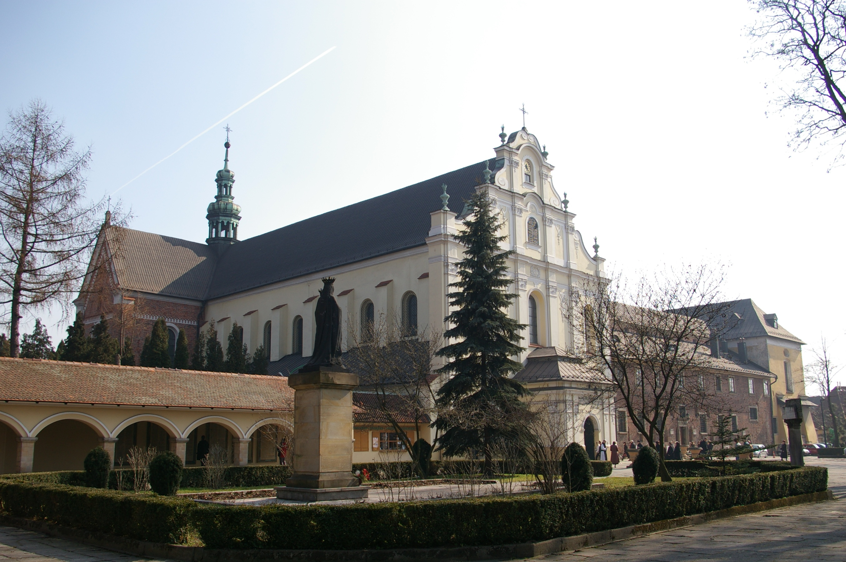 Cistercian Abbey in Kraków - Mogiła